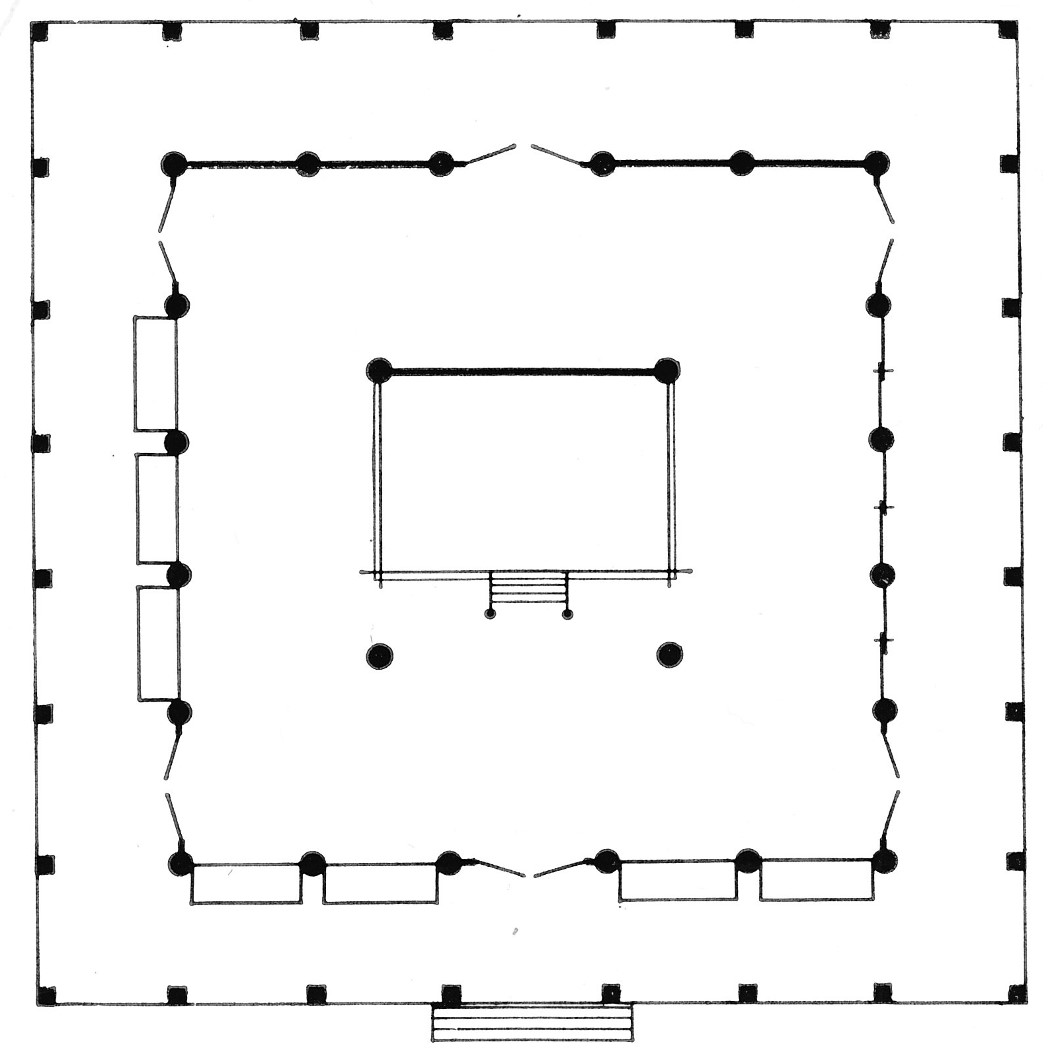 Layout of Hôkai-ji